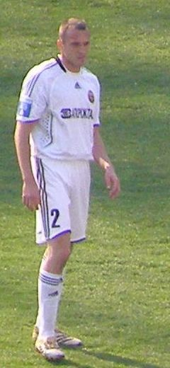 Nikola Vasiljević, defender for NK Kroatia Sesvete